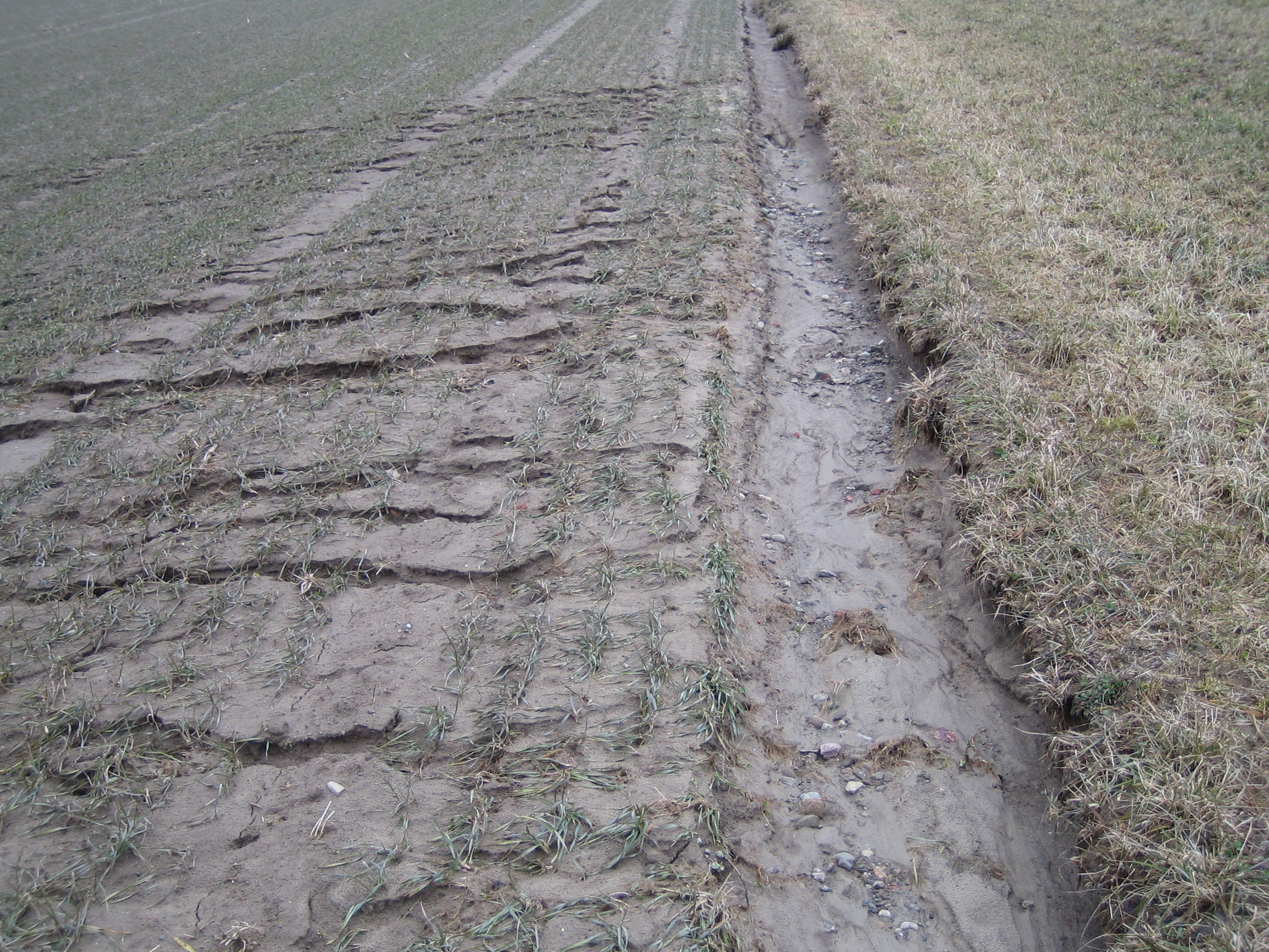 Erosion in furrows, canton of Bern, Switzerland